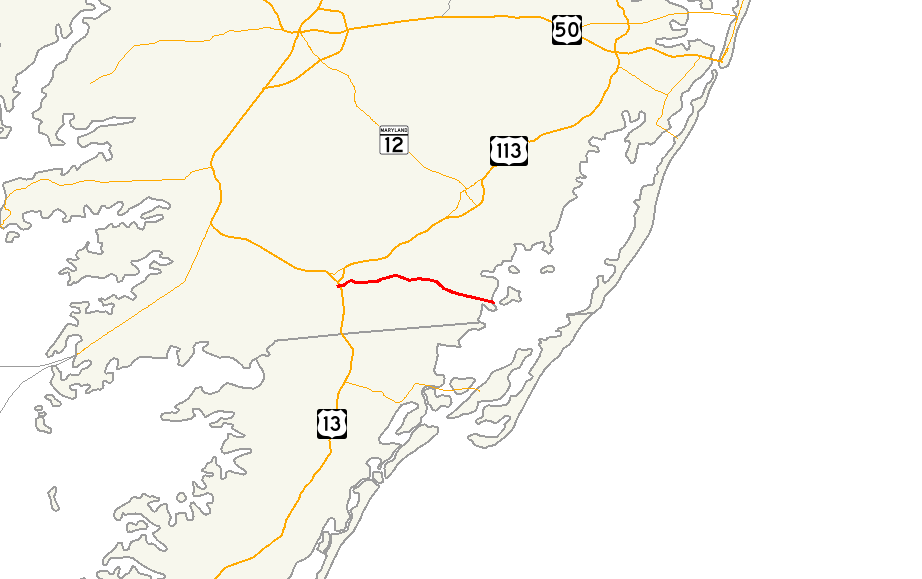 Map of Maryland 366